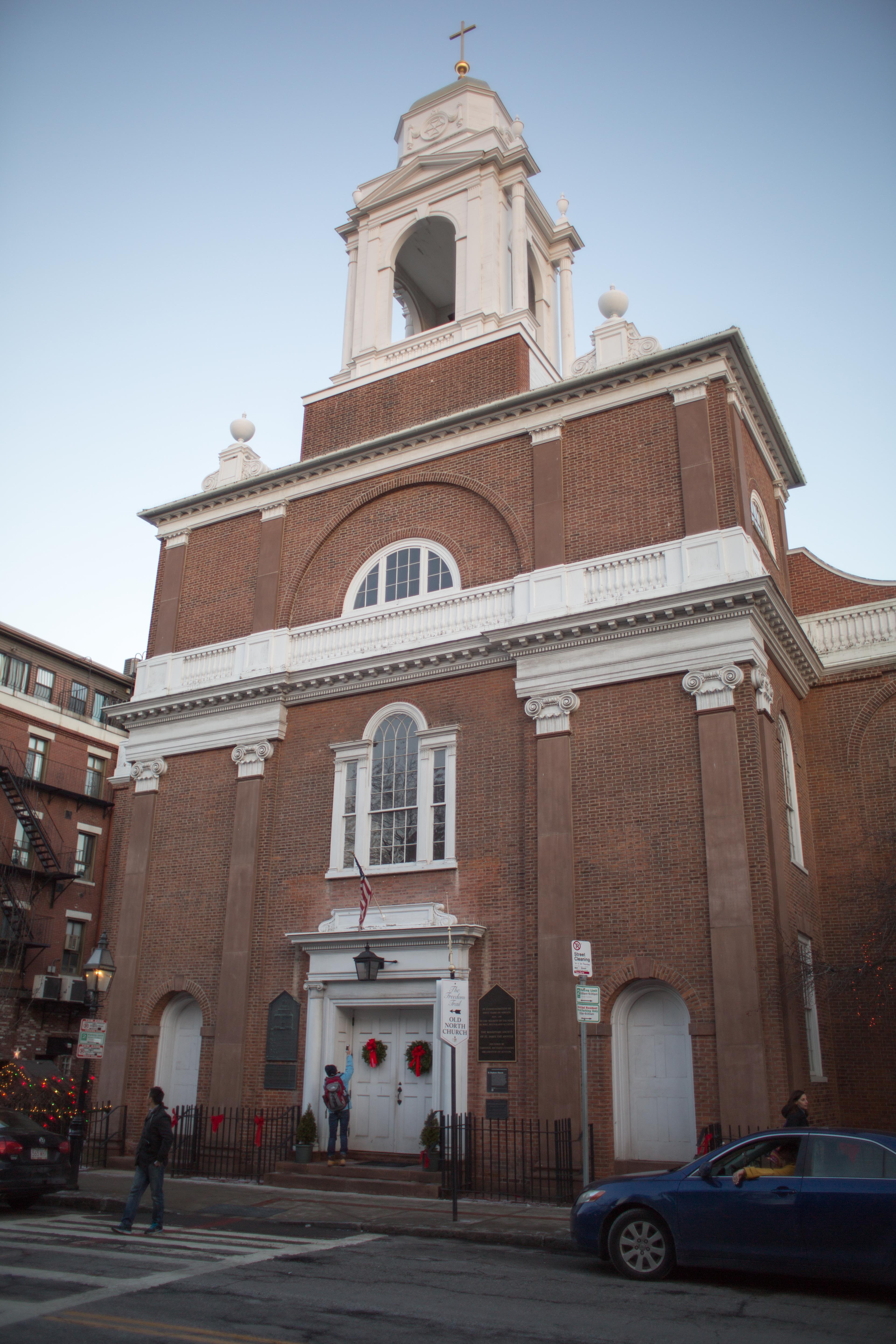 Paul Revere church, Boston, Mass